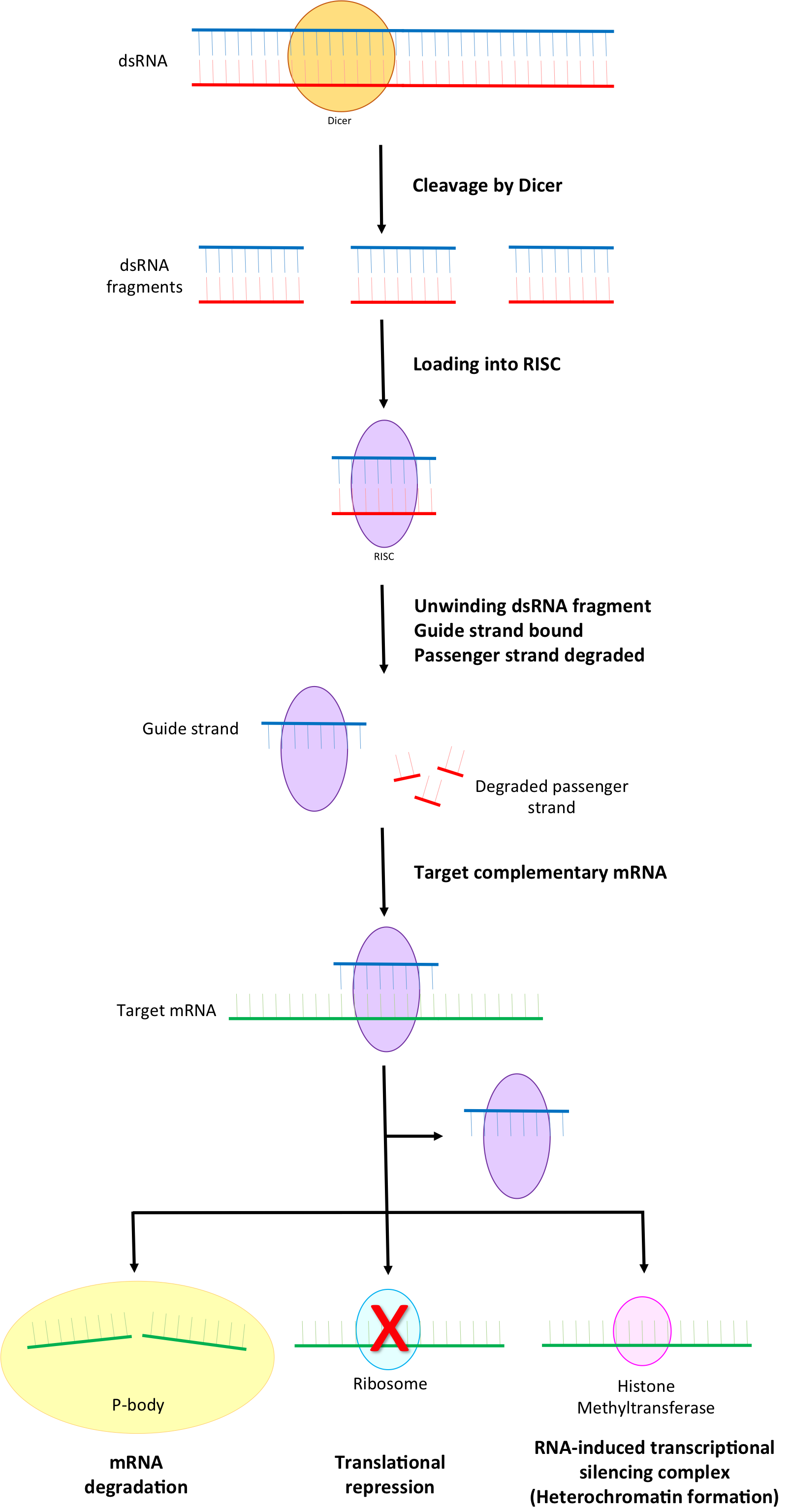 Part of the RNA interference pathway focusing on the involvement of the RNA-induced silencing complex (RISC). This includes RISC binding double-stranded RNA, cleaving one of the strands and using the other to target complementary messenger RNA to silence certain genes.